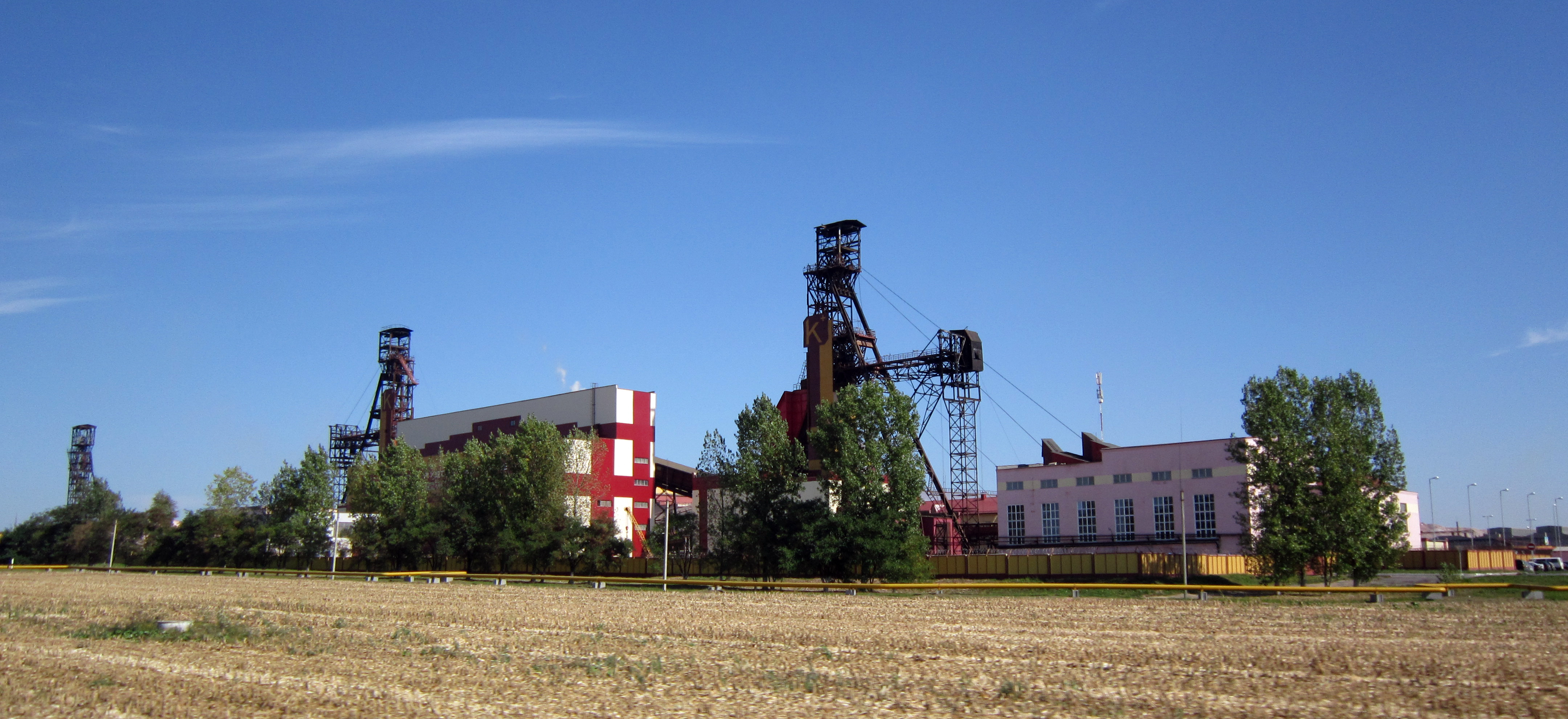 Potash Mine in Salihorsk (Soligorsk) in Belarus